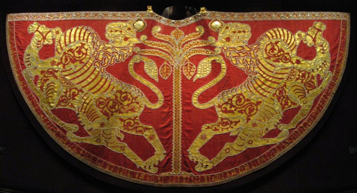 The Coronation Mantle Palermo Royal workshop, 1133/34 Figured silk (kermes-dyed), gold and silk embroidery, pearls, gold with cloisonné enamel, precious stones H 146 cm, W 345 cm SK Inv. No. XIII 14